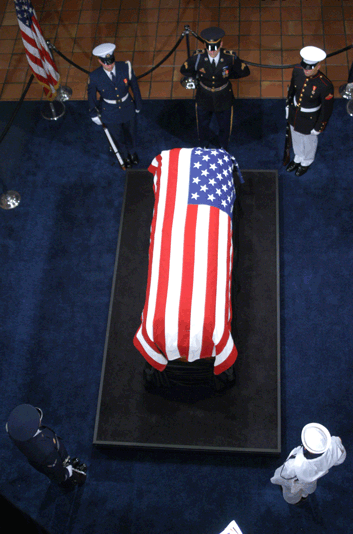 Former President Ronald Reagan lies in repose in the Ronald Reagan Presidential Library lobby.